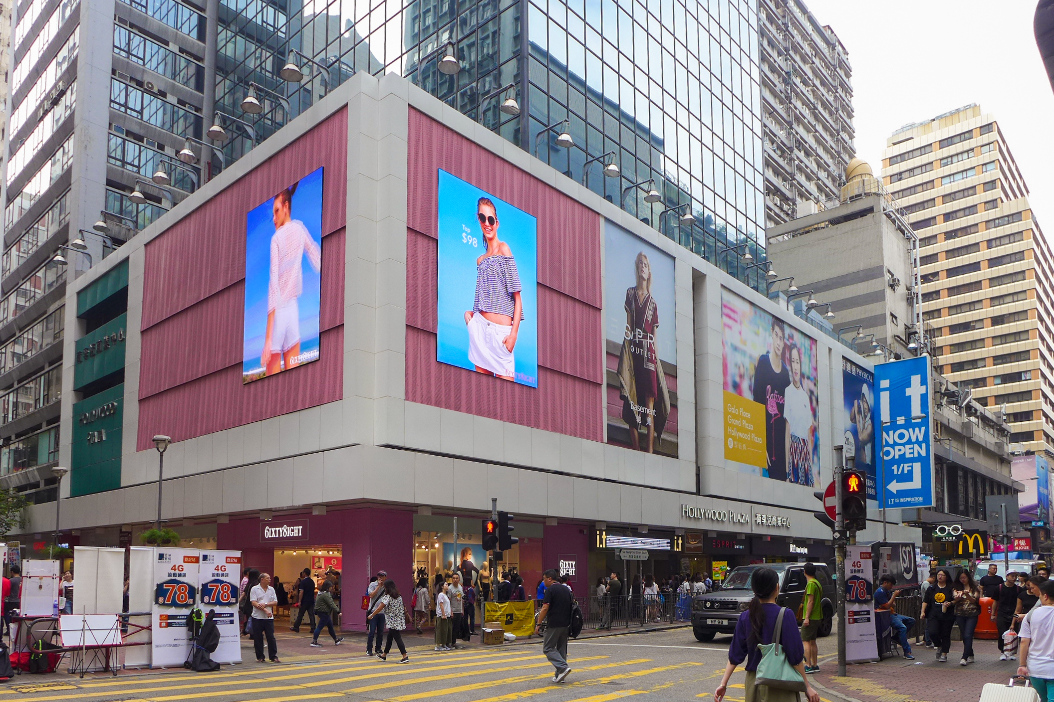 Hollywood Plaza Sai Yeung Choi Street South Facade